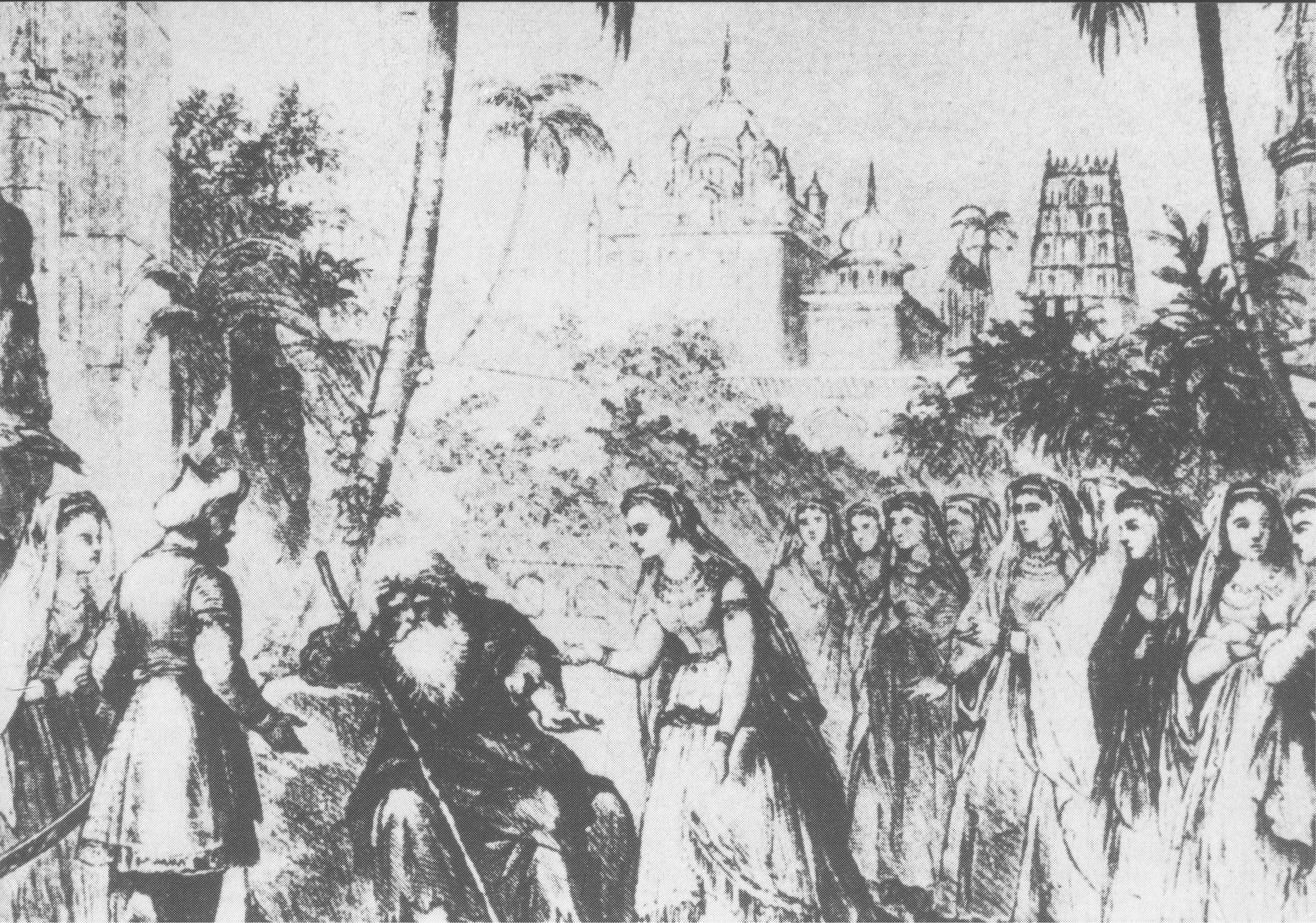 Scene from Act II of S. Moniuszko's "Paria". Etching by J. Schübeler after F. Tegazzo, 1870